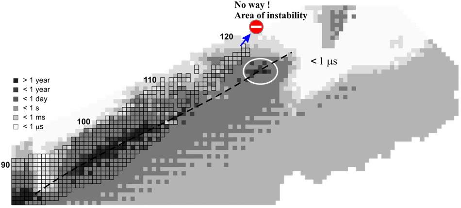 A representation of the theoretical island of stability. This image was taken from this 2012 presentation by Valeriy Zagrebaev (archived on 3 March 2016 at the Wayback Machine).